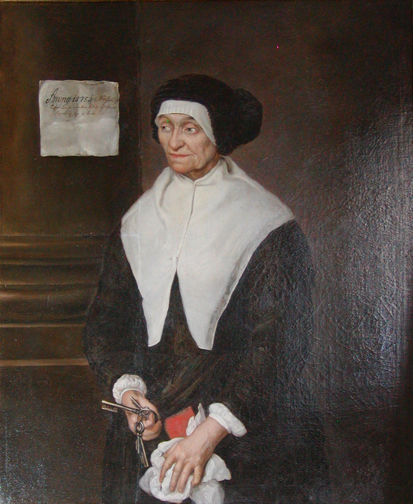 who claimed to have been born in 1575 (her "birth certificate" is shown on the wall behind her, "Anno 1575" can be discerned). And if true would thus have been of age 123 at the time of her death in 1698.